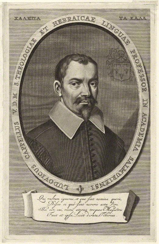 Portrait of Louis Cappel